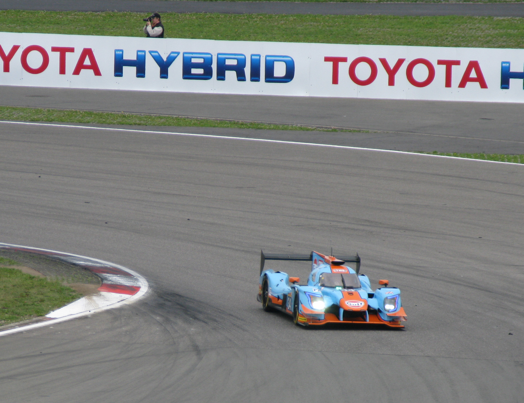 34 Ligier JSP217 of Tockwith Motorsports.